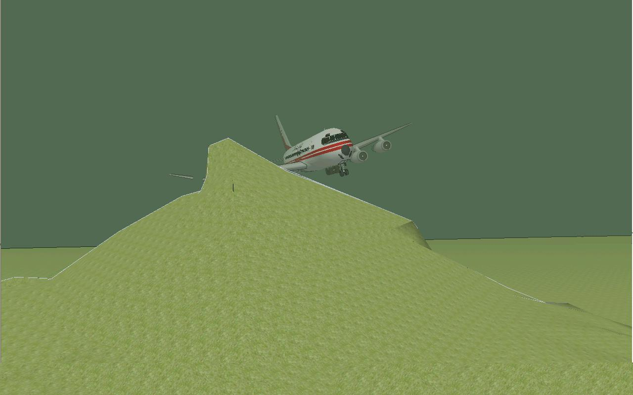 Graphic produced by google sketchup.